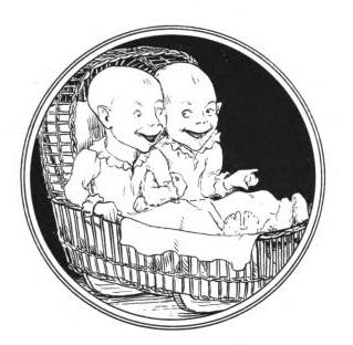 An illustration of the fairy tale Brewery of Eggshells created by John D. Batten for Joseph Jacob's collection Celtic Fairy Tales.